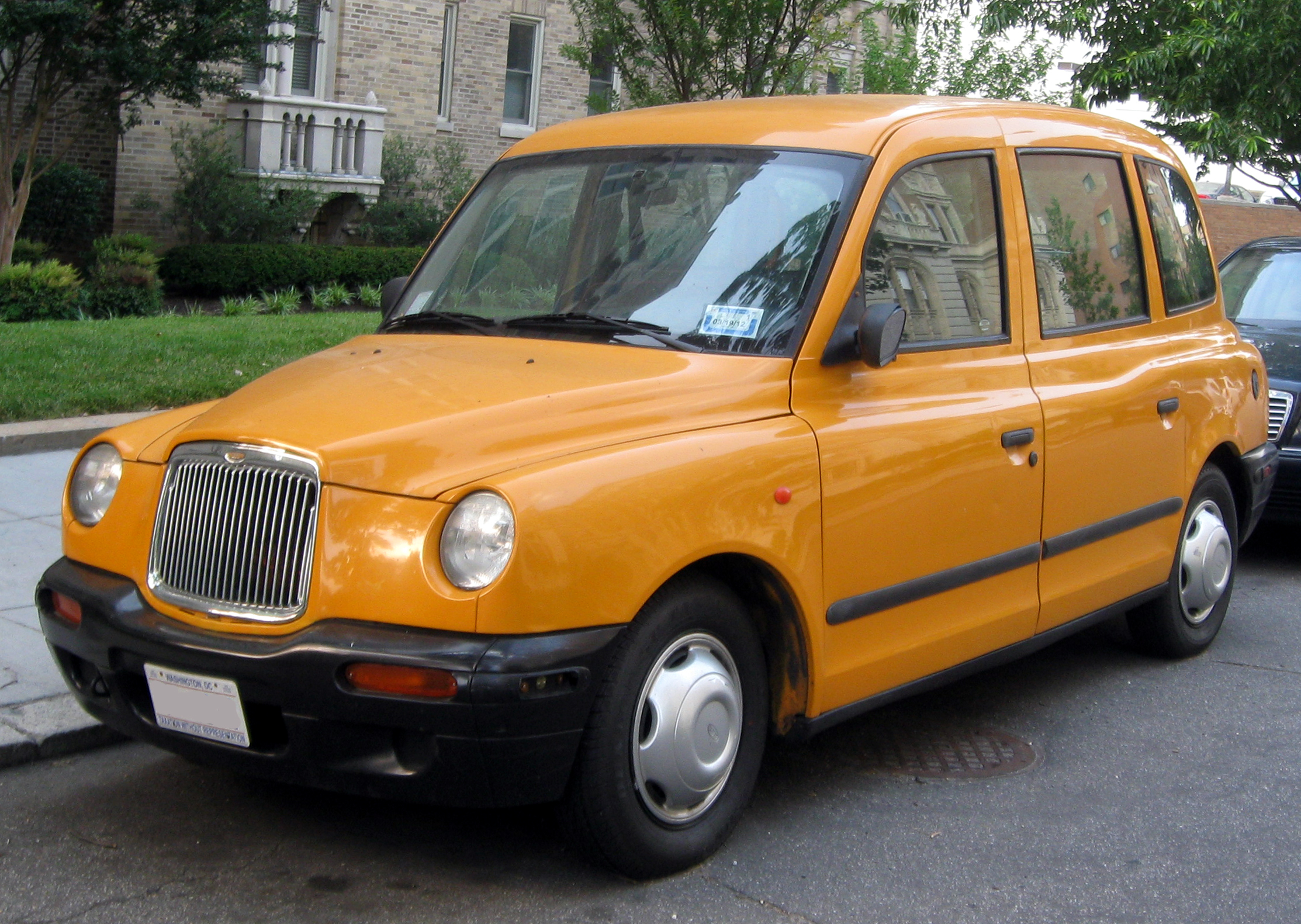 2003 LT1 TXII photographed in Washington, D.C., USA.